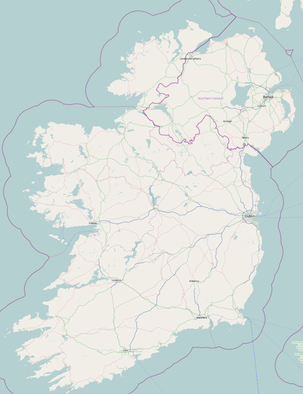 Map of Ireland (island) screen-grabbed from OpenStreetMap